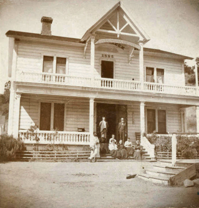 Photograph of Hotel Santa Ysabel (Smith Creek Hotel) in 1895, Santa Clara County, California, from